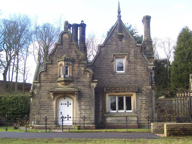 Lodge, Broughton Hall